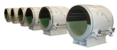 These are cold pipe shoes manufactured by Piping Technology & Products.